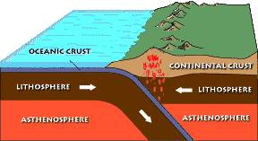 Original source is public domain - United States Geological Service [1], which I have altered slightly to emphasize gold-bearing magma rising, rather than purely volcanic action.